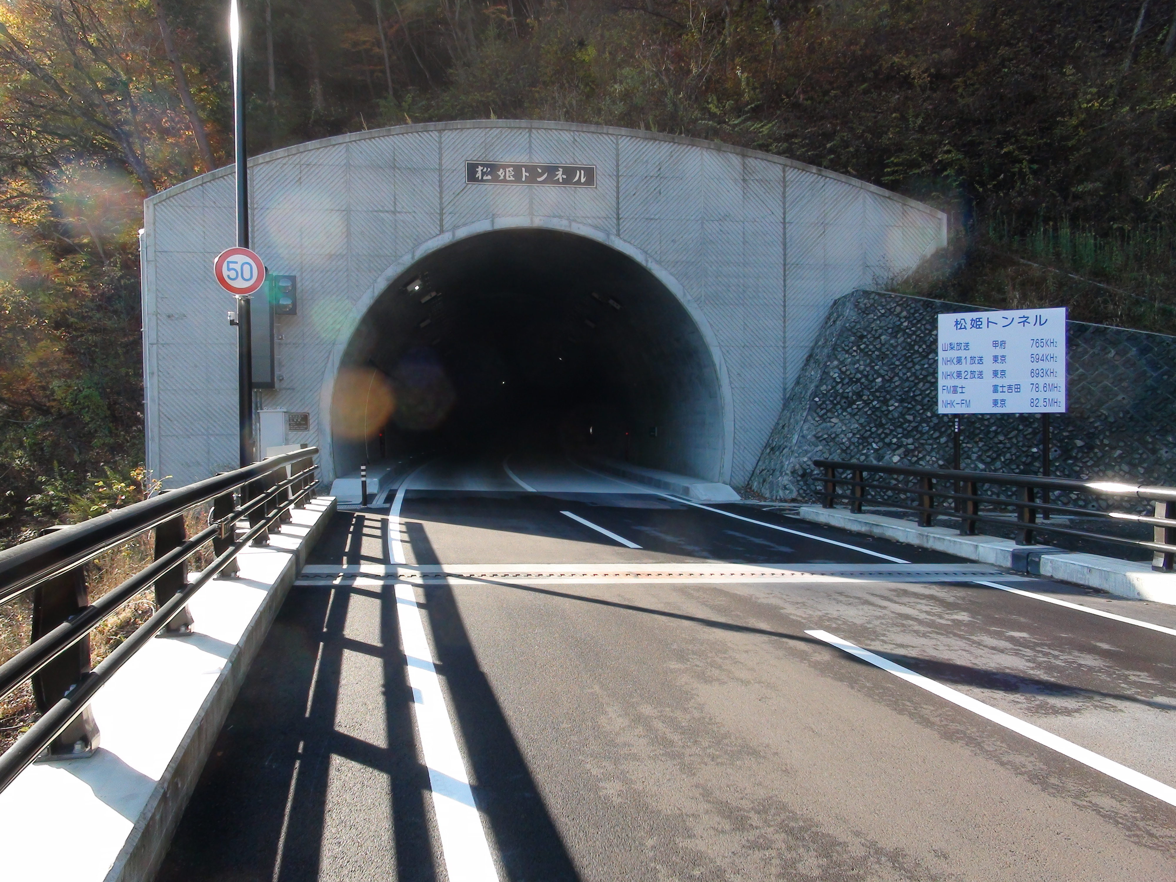 Matsuhime tunnel Kosuge side entrance